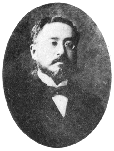 Hatano Denzaburō